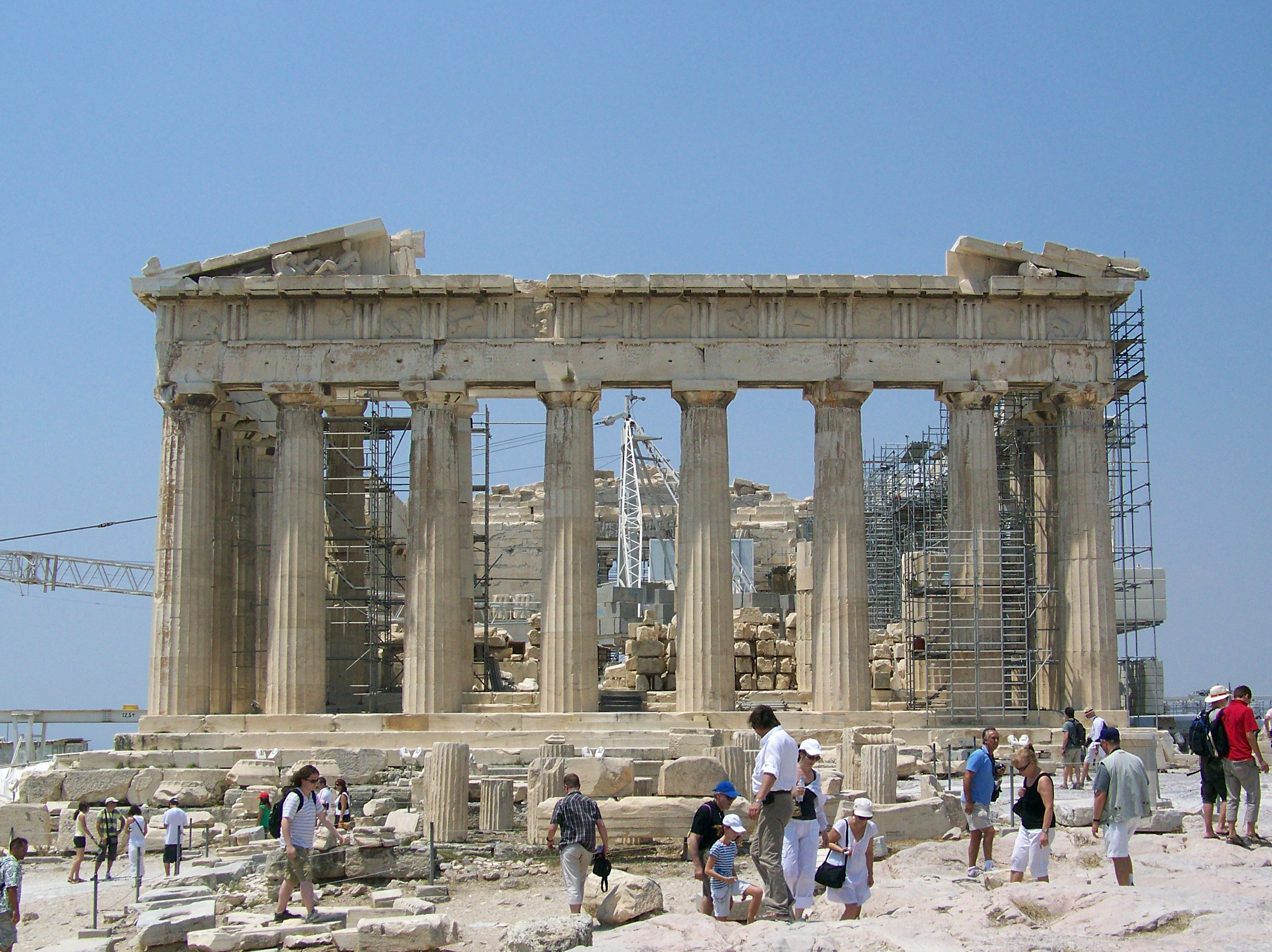 Eastern facade of the Parthenon during its restoration, Acropolis of Athens, Greece.